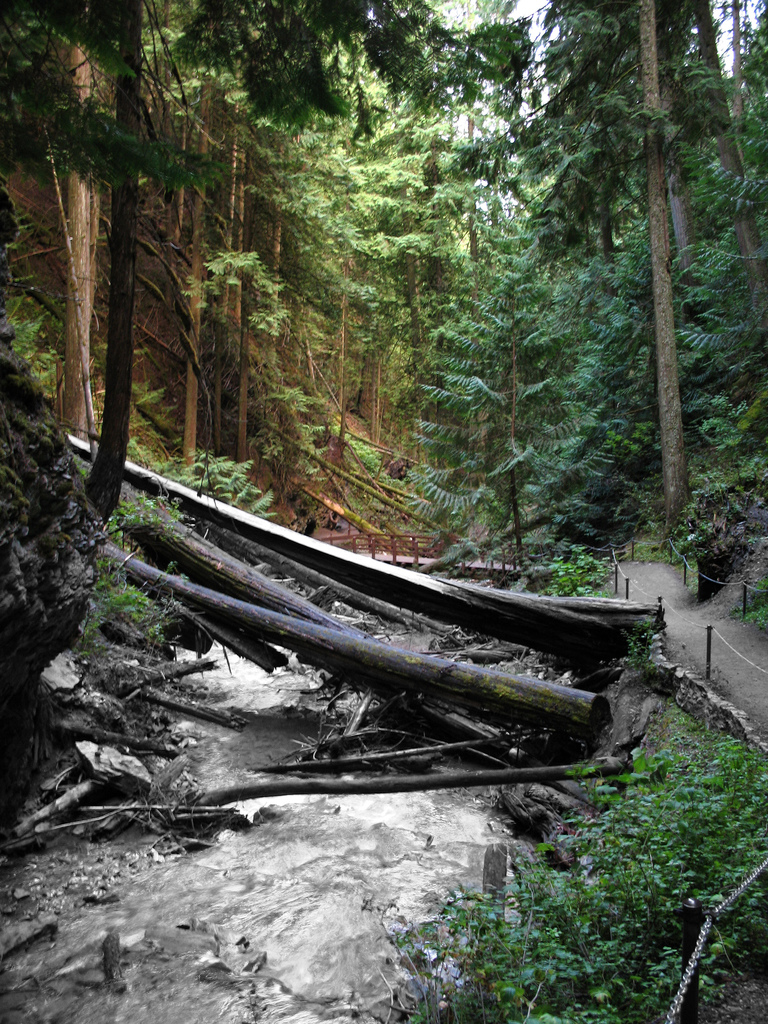 leads to Margaret Falls